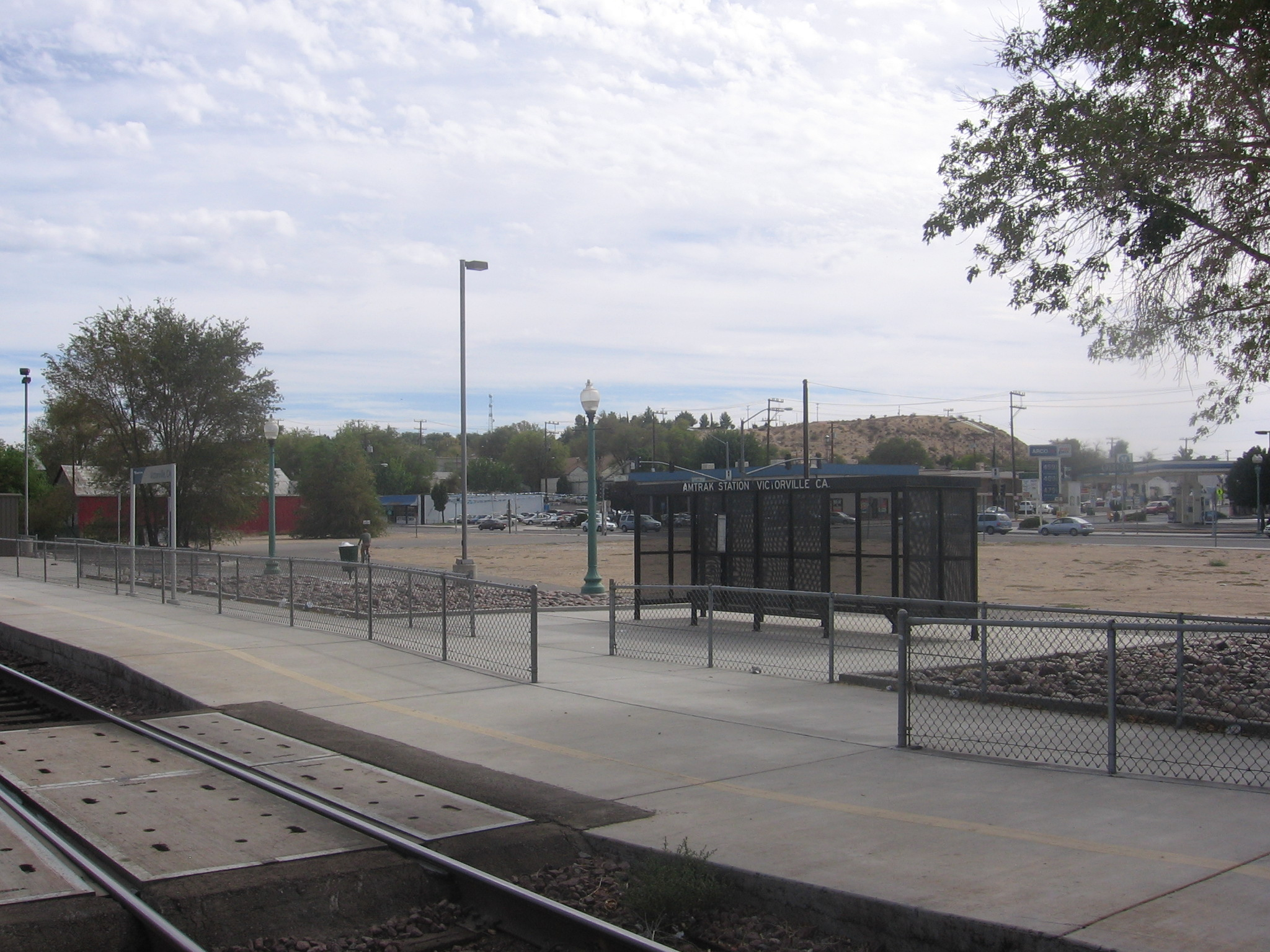 The Victor Valley Transportation Center in Victorville, California, USA.